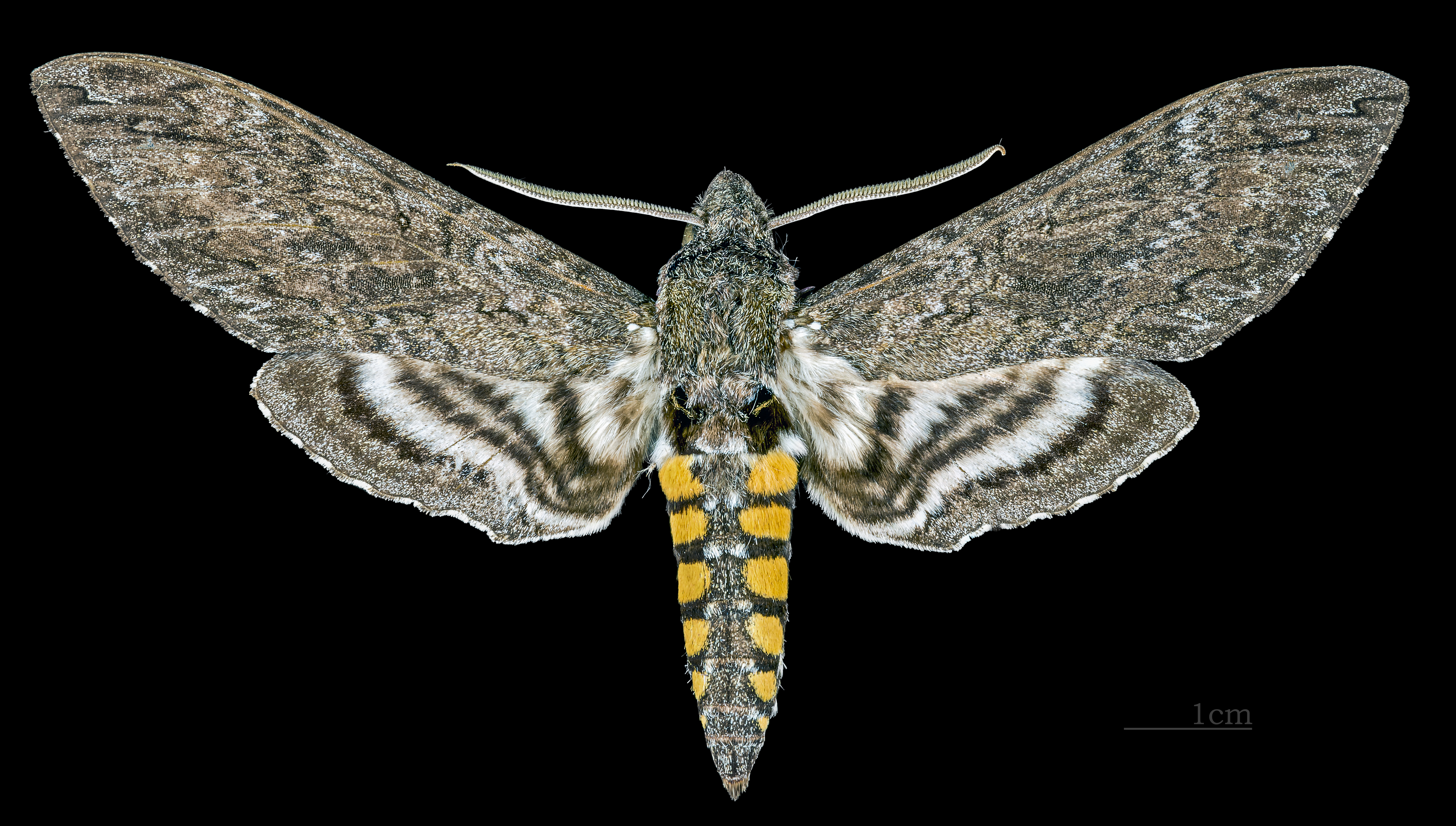 Manduca sexta - Dorsal side Collection of the Mathematician Laurent Schwartz